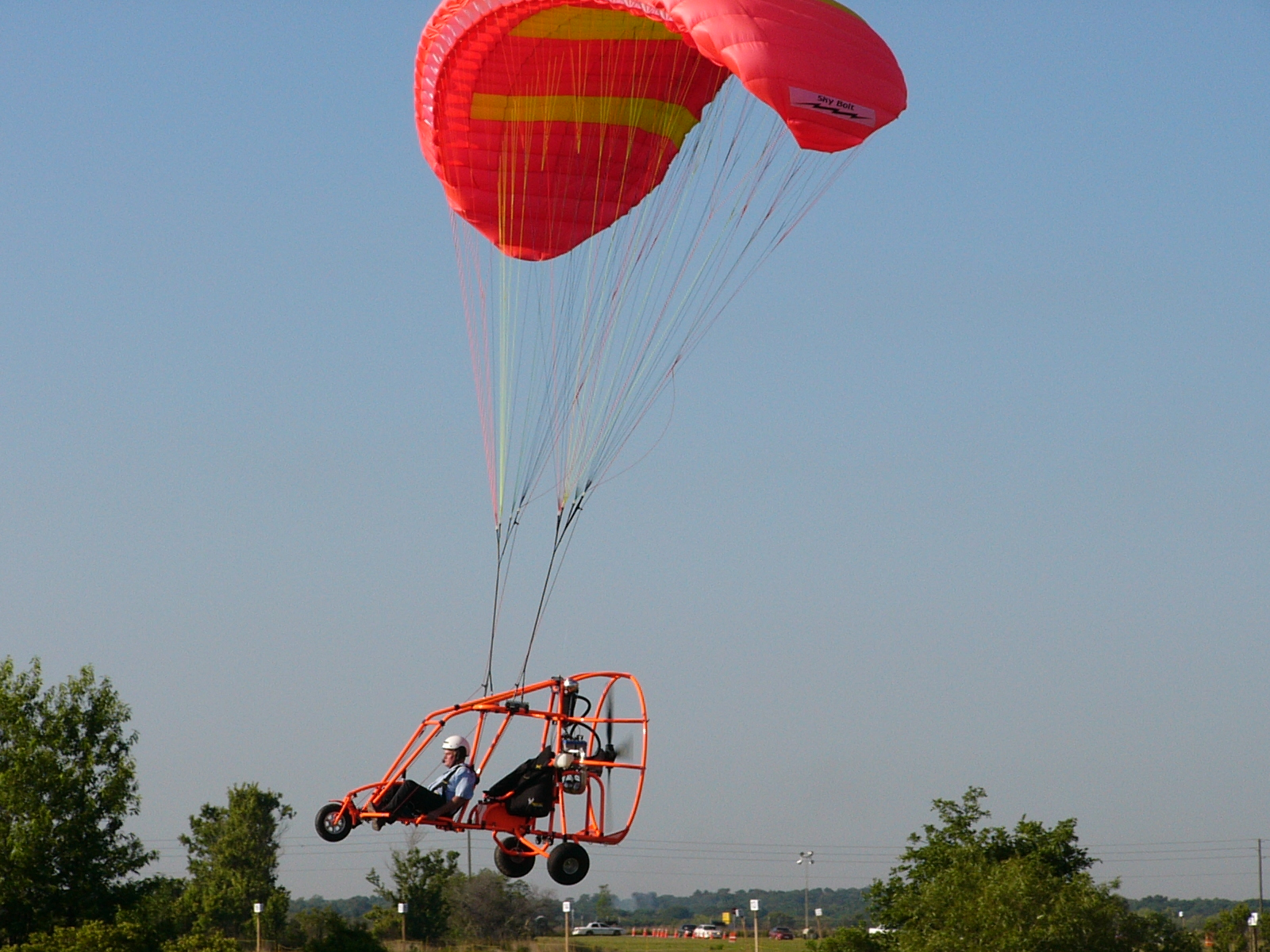 A Powrachute Pegasus flown at Sun 'n Fun 2004.